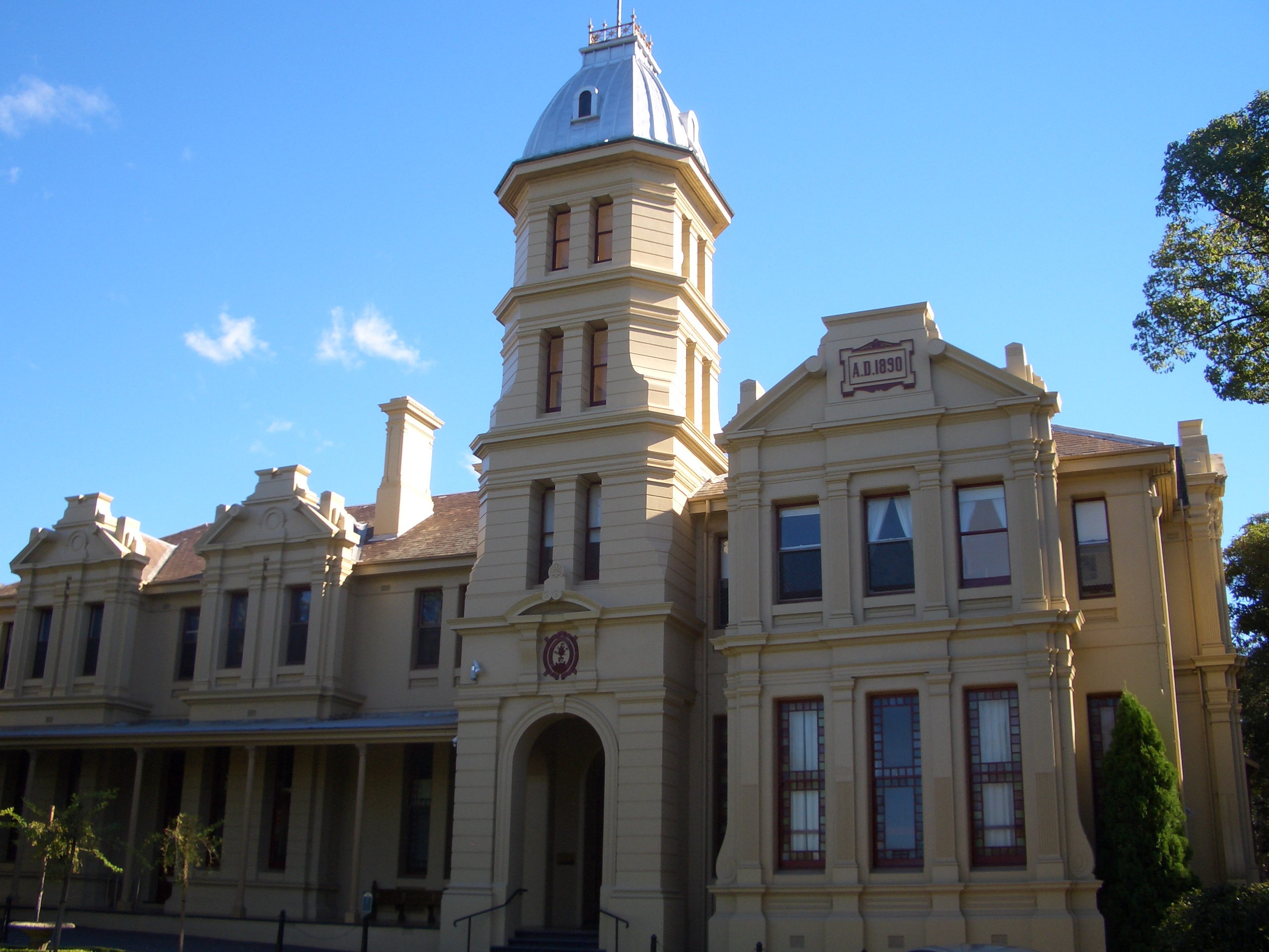 'Main School' at the Presbyterian Ladies' College, Sydney (Boarding house, dining hall, and assembly hall)